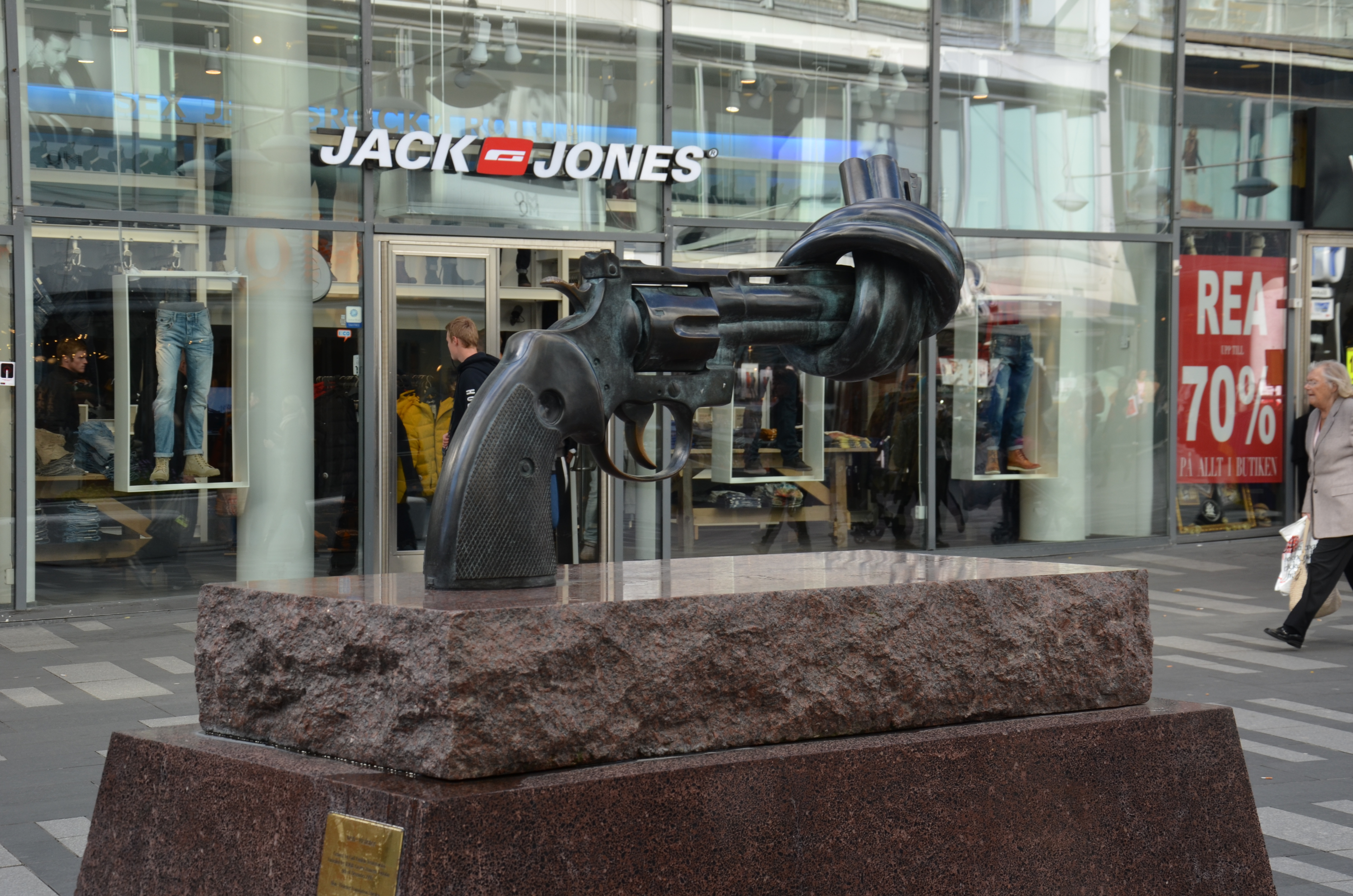 Carl Fredrik Reuterswärd's Non-Violence, Sergelgatan, Stockholm